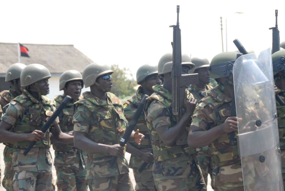 Members of the Ghana Army 2nd Engineer Battalion assemble in a riot control formation during a nonlethal training demonstration June 26, 2013, in Accra, Ghana, as part of exercise Western Accord 2013. Western Accord is a U.S. Africa Command-sponsored, Marine Forces Africa-led multilateral field exercise and humanitarian mission in Senegal designed to increase interoperability between the United States and several West African partner nations.